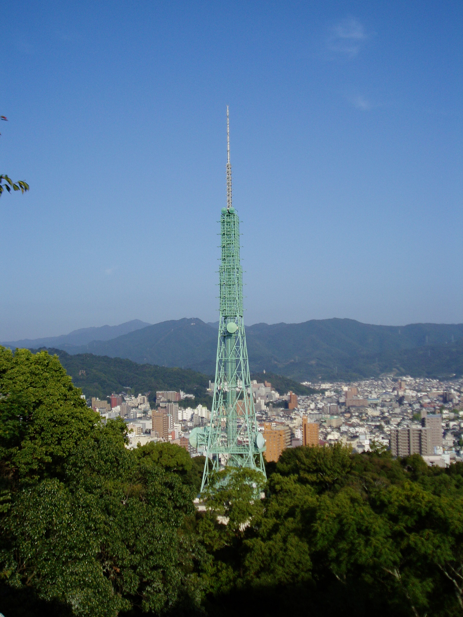 Television tower on The Matsuyama castle mountain(Ehime, JAPAN)